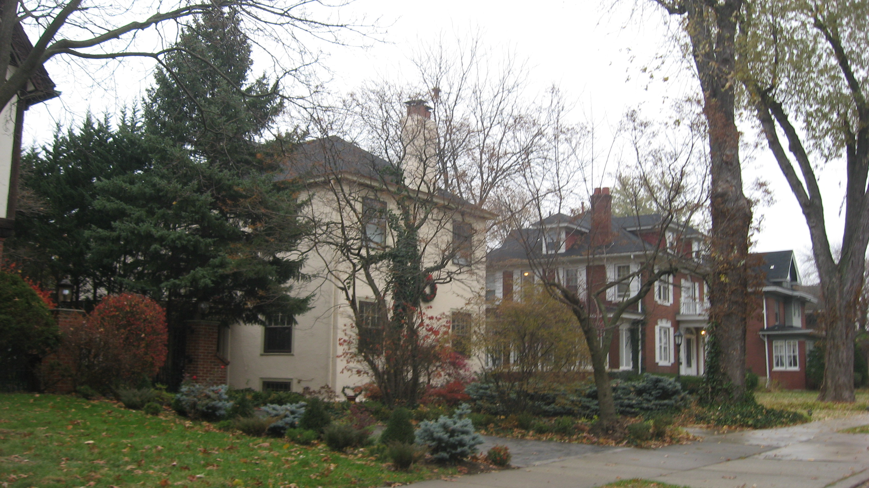 Houses on the northern side of Glendale Parkway in Hammond, Indiana, United States. This neighborhood composes the Glendale Park Historic District, a historic district that is listed on the National Register of Historic Places.